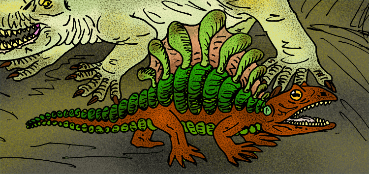 My reconstruction of the early Permian temnospondyl amphibian, Platyhystrix rugosa (C) Stanton F. Fink